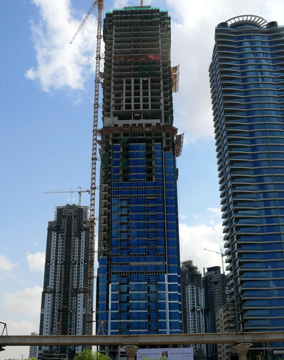 This is a photo showing the construction of Al Tayer Tower, located along Sheikh Zayed Road in Dubai, United Arab Emirates, on 28 December 2007.